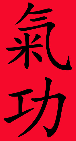 Chinese characters 氣功 for Qigong, Qi gong, Chi Kung